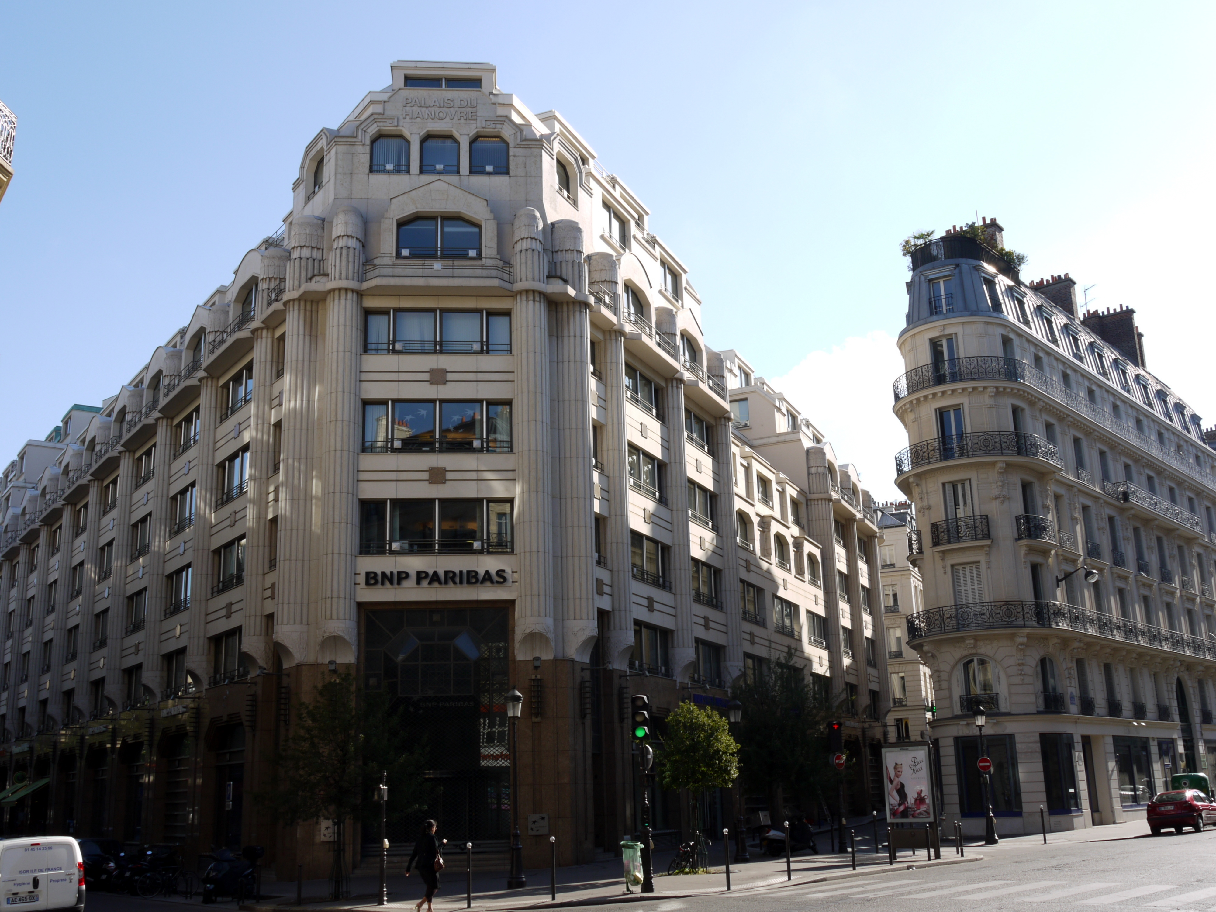 Palais Berlitz, Paris